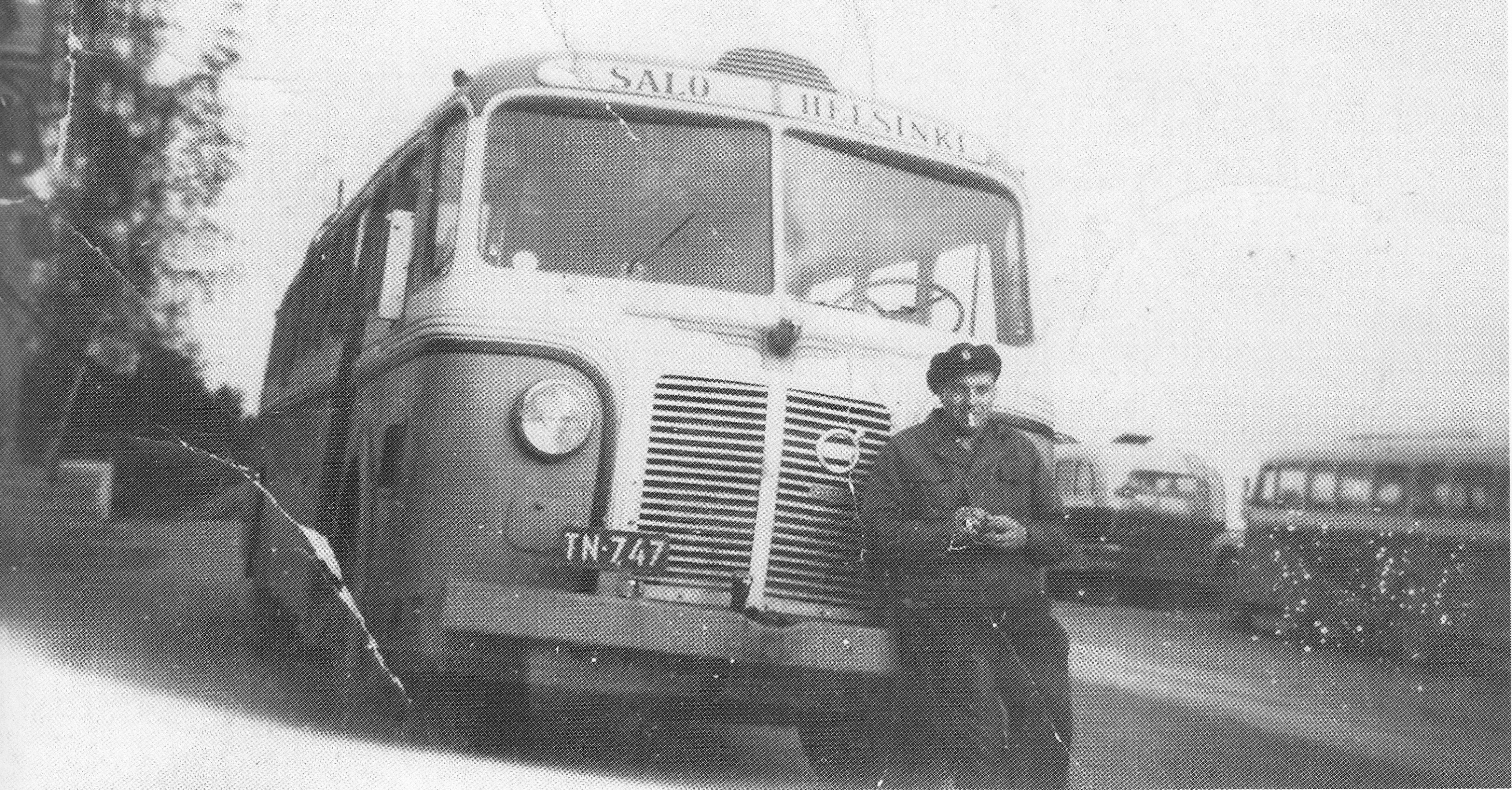 Niilo Alhomaa with Bulldog Volvo in year 1950.